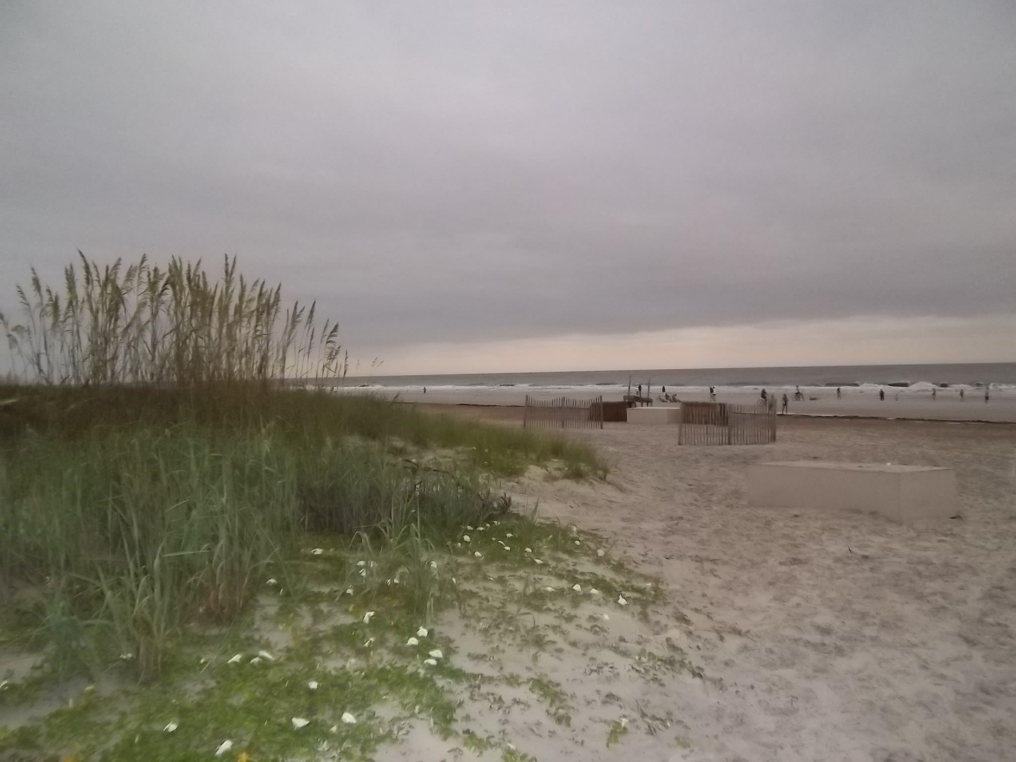 This photo was taken on Hilton Head Island, South Carolina in the summer of 2012.